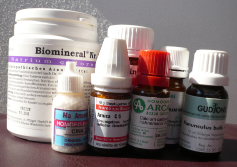 Photo: homeopathic preparations